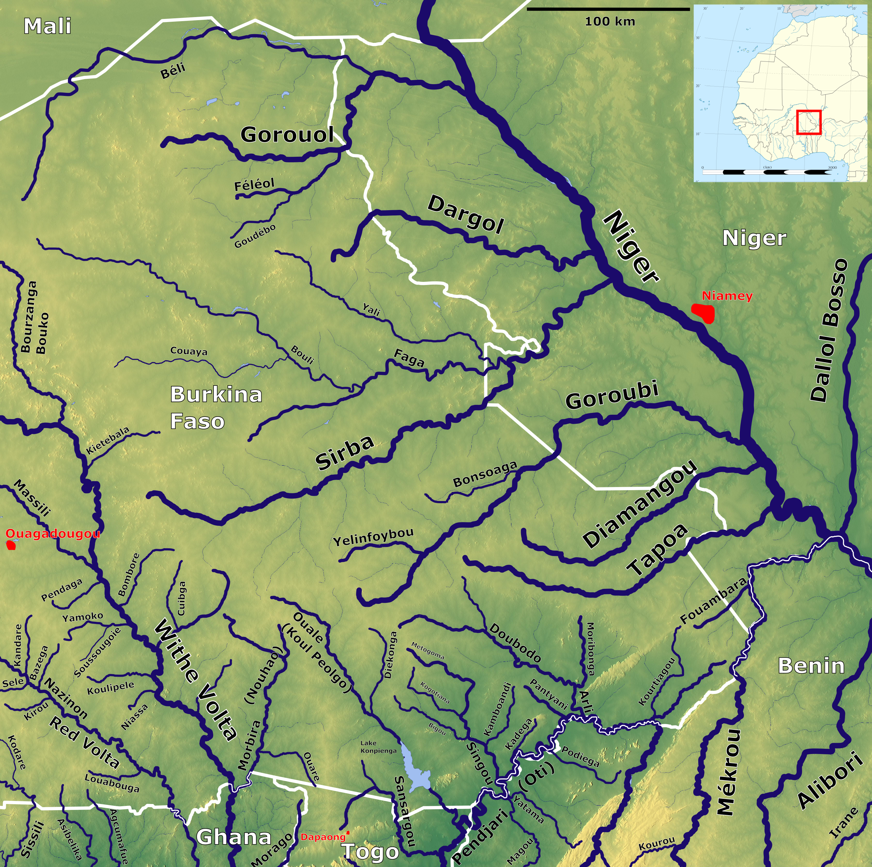 River Niger Tributaries from Burkina Faso OSM